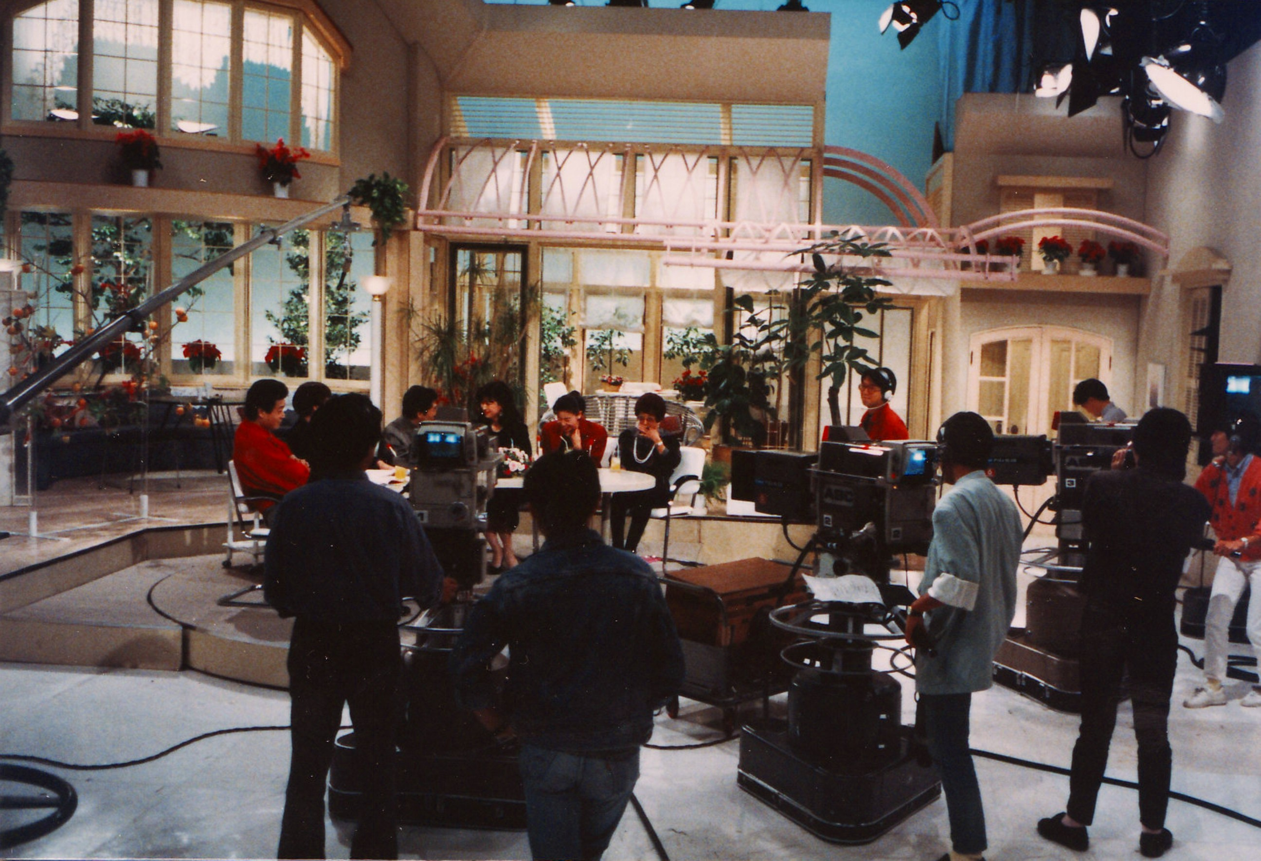 TV studio in multicamera production of Asahi Broadcasting Corporation. In the front ther cameras on the hydraulic pedestals with Cameramen, in the background the performers in the scenery. On the left a microphone boom. Studio lights above.